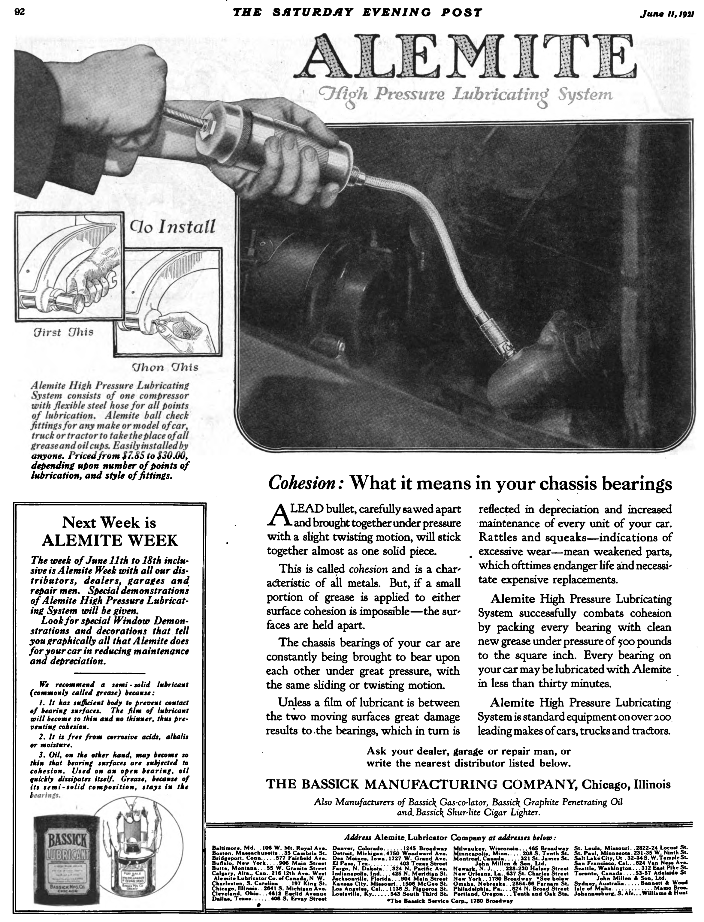 Alemite Lubricator Company advertisement in the Saturday Evening Post, June 11, 1921, volume 193, issue 5, page 92.